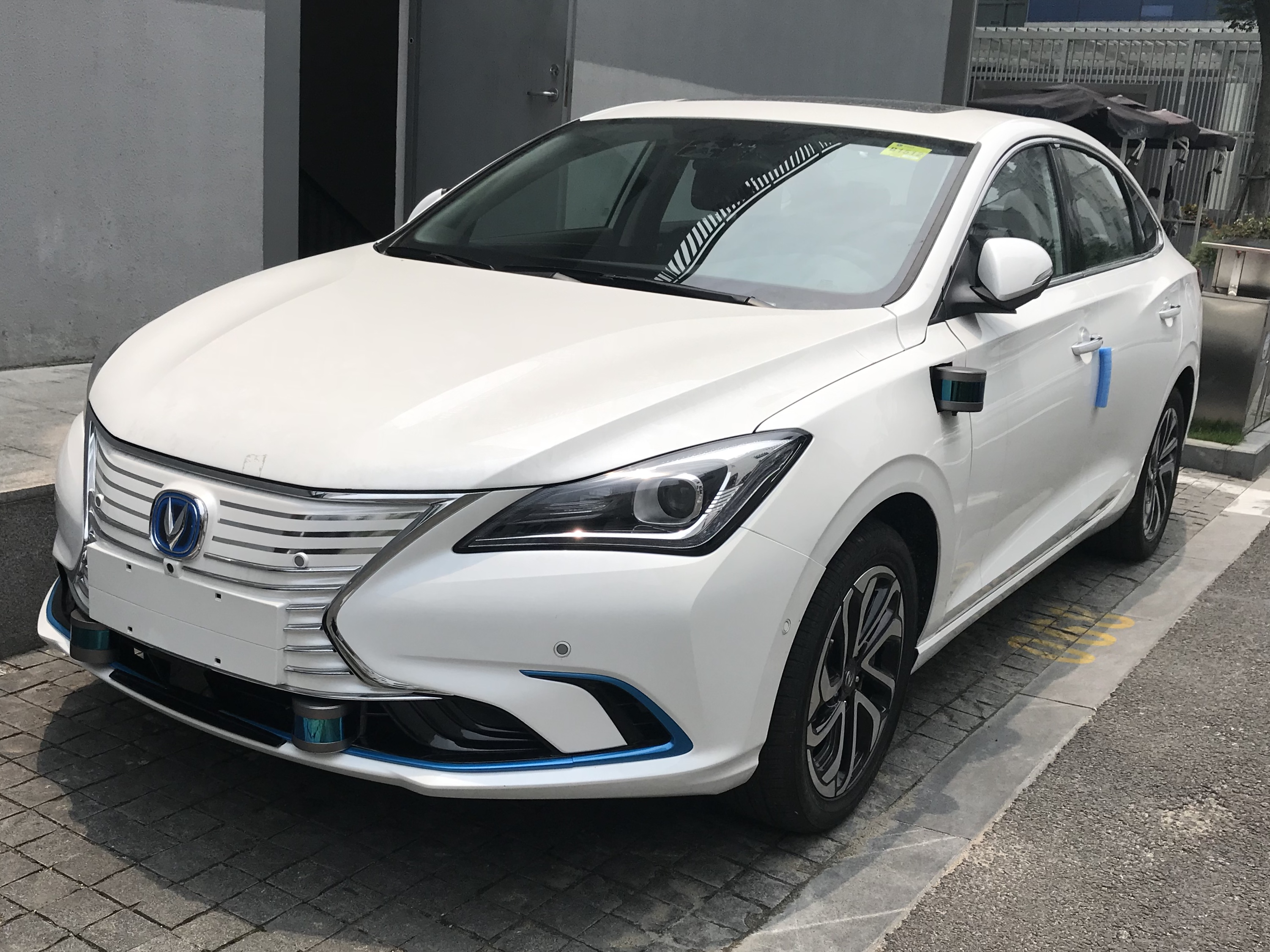 Changan Eado EV